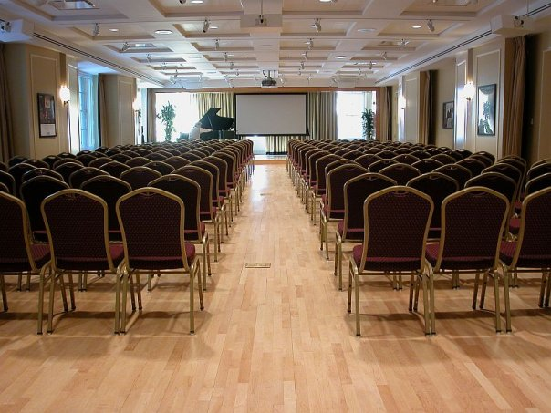 Yamaha Artist Services' Piano Salon setup for silent film and piano performance